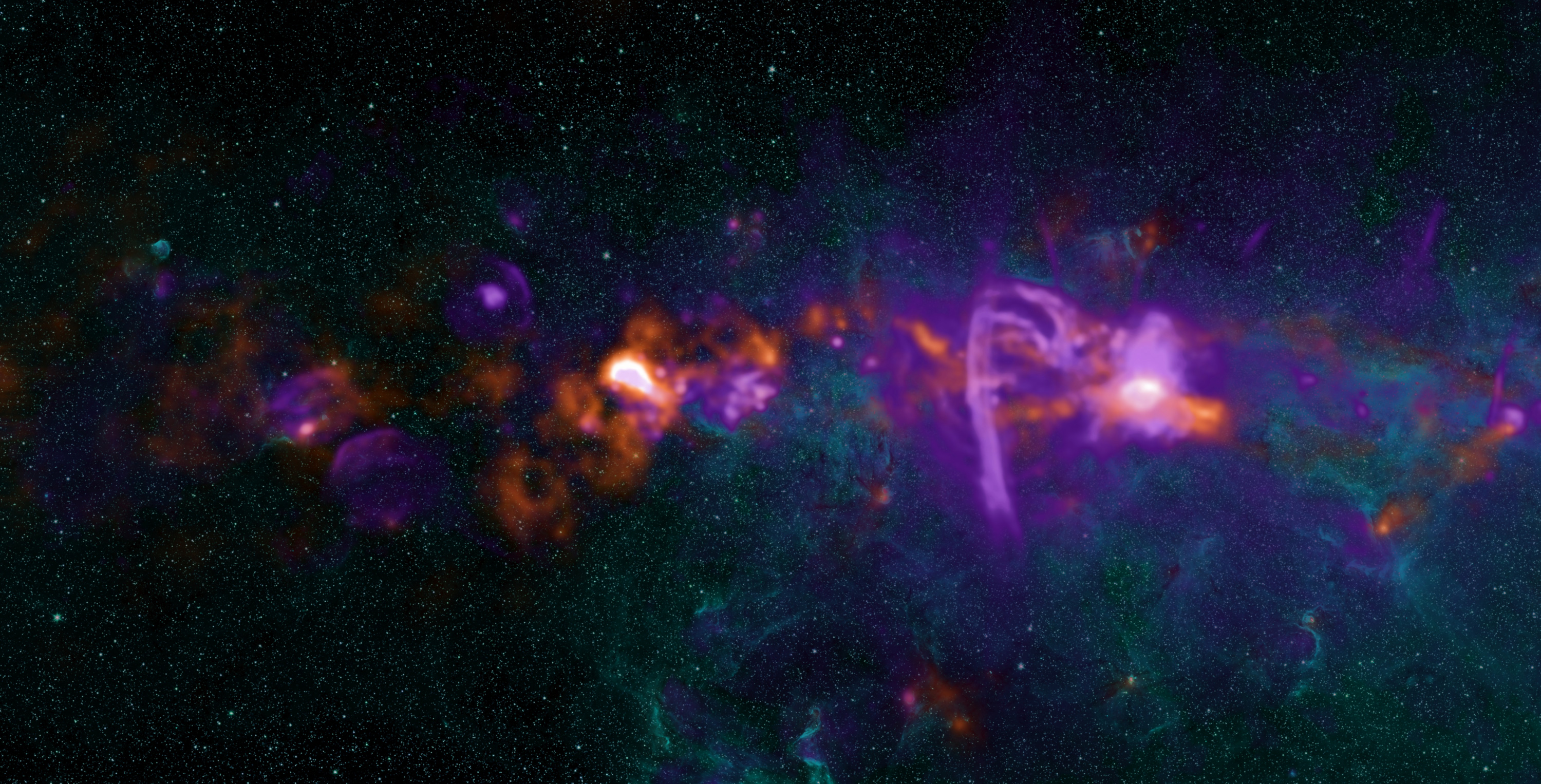 The Galactic Center and the surrounding Central Molecular Zone make up the most active star formation region in the Milky Way. Regions of molecular hydrogen (purple), seen by the Very Large Array (VLA), are illuminated by hot, massive stars, supernova remnants, and synchrotron emission. The Caltech Submillimeter Observatory observed cold (20-30 K) dust associated with molecular gas (orange). Some of this material will form stars within in the next few million years; the remainder will be blown away. The diffuse cyan and colored star images are from the Spitzer Space Observatory’s Infrared Array Camera. The cyan is primarily emission from stars, the point sources, and from polycyclic aromatic hydrocarbons (PAHs), the diffuse component.